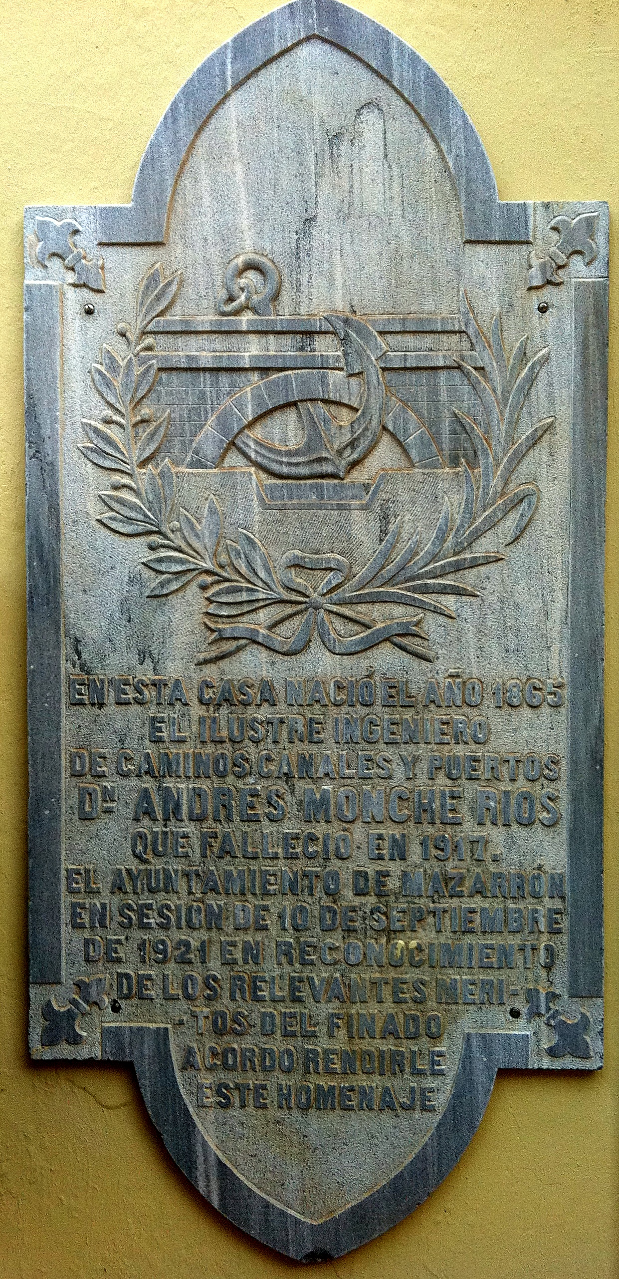 Commemorative stone plaque of Andrés Monche y Ríos